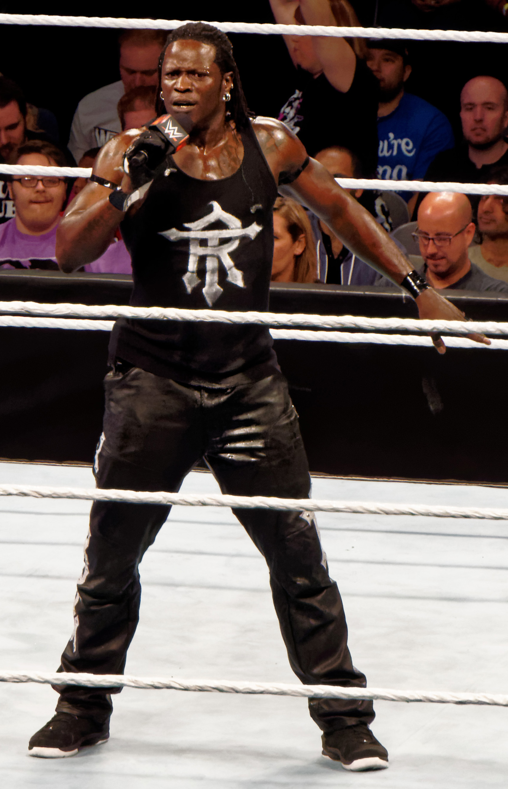 R-Truth in the ring during a WWE Superstars television taping on March 30, 2015.